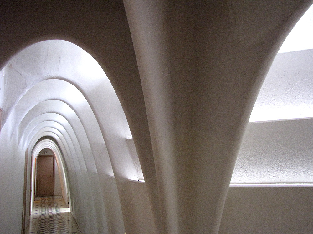 Explore #345 December 3, 2008 This image is included in Darrell Godliman's Barcelona Architecture gallery, check it out here